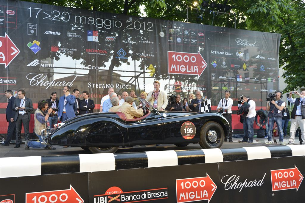 The six-car strong Jaguar Heritage Racing team arrived back in Brescia in the early hours of Sunday morning to successfully complete the 2012 Mille Miglia. The team's entries comprised three C-types, two XK 120s and a Mk VII saloon, each crew and car finishing the challenging Brescia-Rome-Brescia route without incident amongst an entry that included 32 Jaguars in total - a new record.